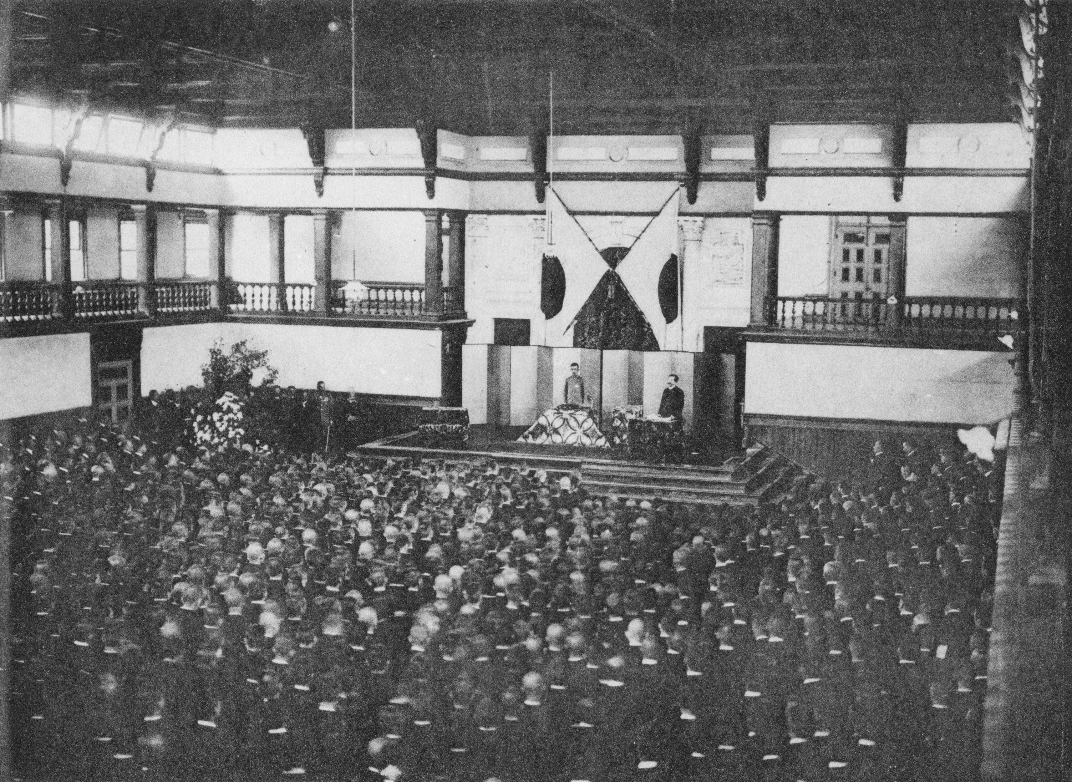 The Crown Prince attended the 40th anniversary ceremony of the Tokyo Higher Normal School in place of the Emperor.